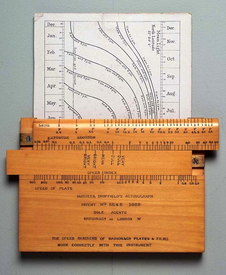 I took this picture of my Hurter & Driffield's Actinograph, a boxwood/brass/cardboard two-slide slide rule.